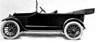 Image is of a 1916 Inter-State Model T Touring. It comes from the Automobile Year Book (1916) published by the Automobile department of McClure's magazine, The McClure Publications , inc. The scanned book is part of the Internet Archive collection. The notes at this site describe the source as: Book digitized by Google from the library of the University of Michigan and uploaded to the Internet Archive by user tpb.